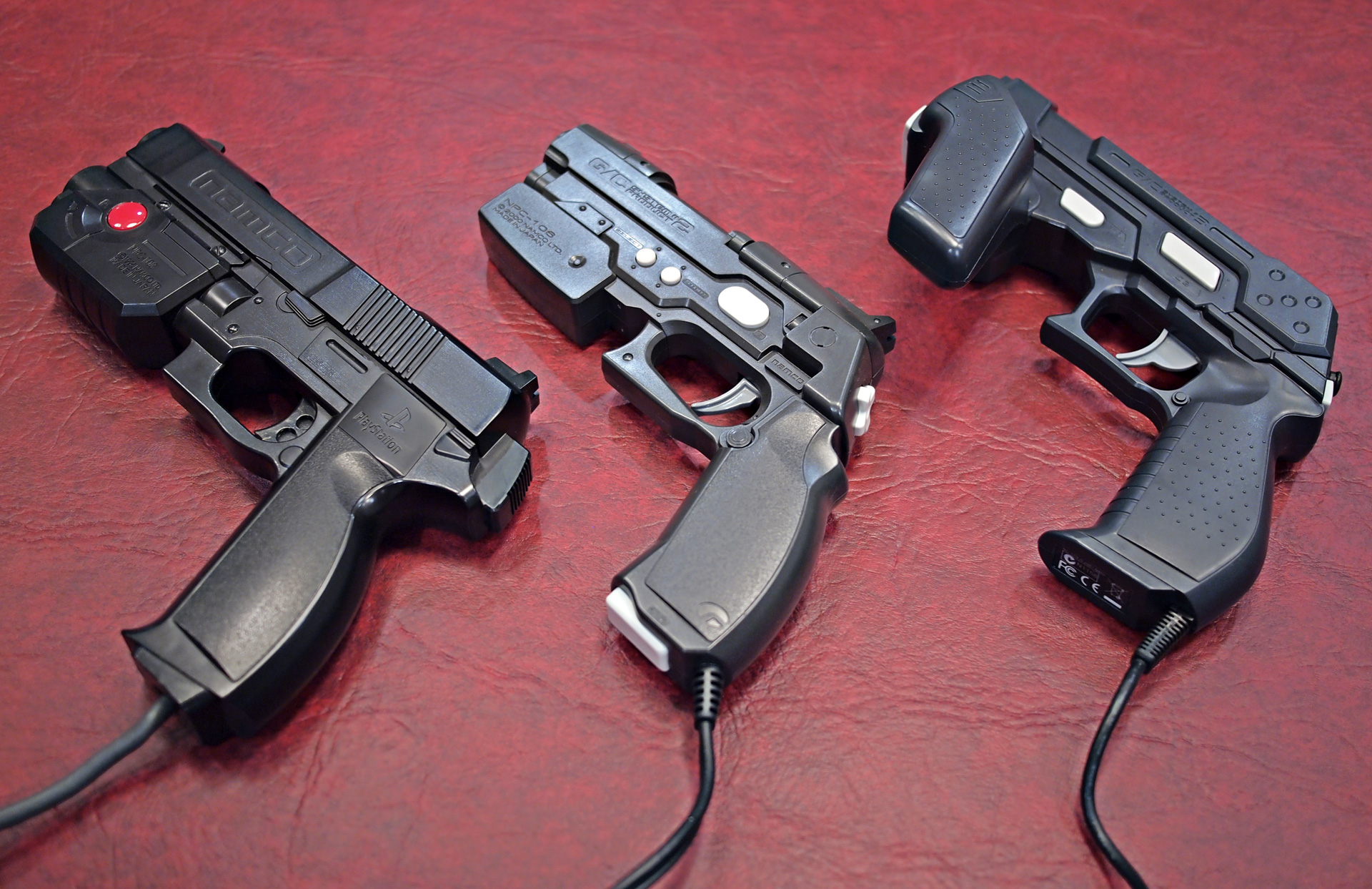 The Guncon (left), Guncon 2 (middle), and Guncon 3 (right) light gun controllers for the PlayStation, PlayStation 2, and PlayStation 3 video game consoles, respectively.